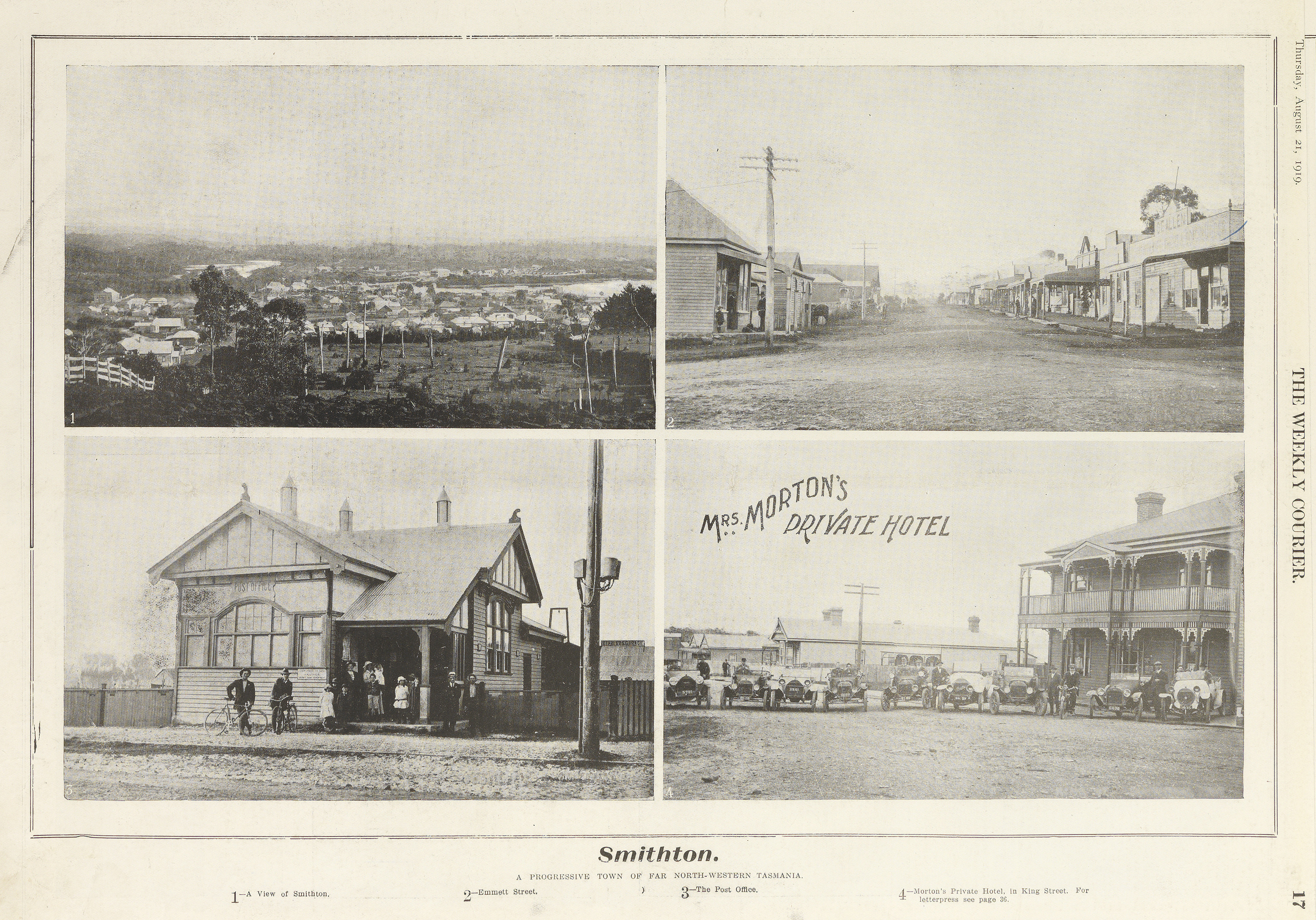 Tasmanian Archive and Heritage Office: WC1919/08/21 p17 Images from the TAHO collection that are part of The Commons have ‘no known copyright restrictions’, which means TAHO is unaware of any current copyright restrictions on these works. This can be because the term of copyright for these works may have expired or that the copyright was held and waived by TAHO. The material may be freely used provided TAHO is acknowledged; however TAHO does not endorse any inappropriate or derogatory use.